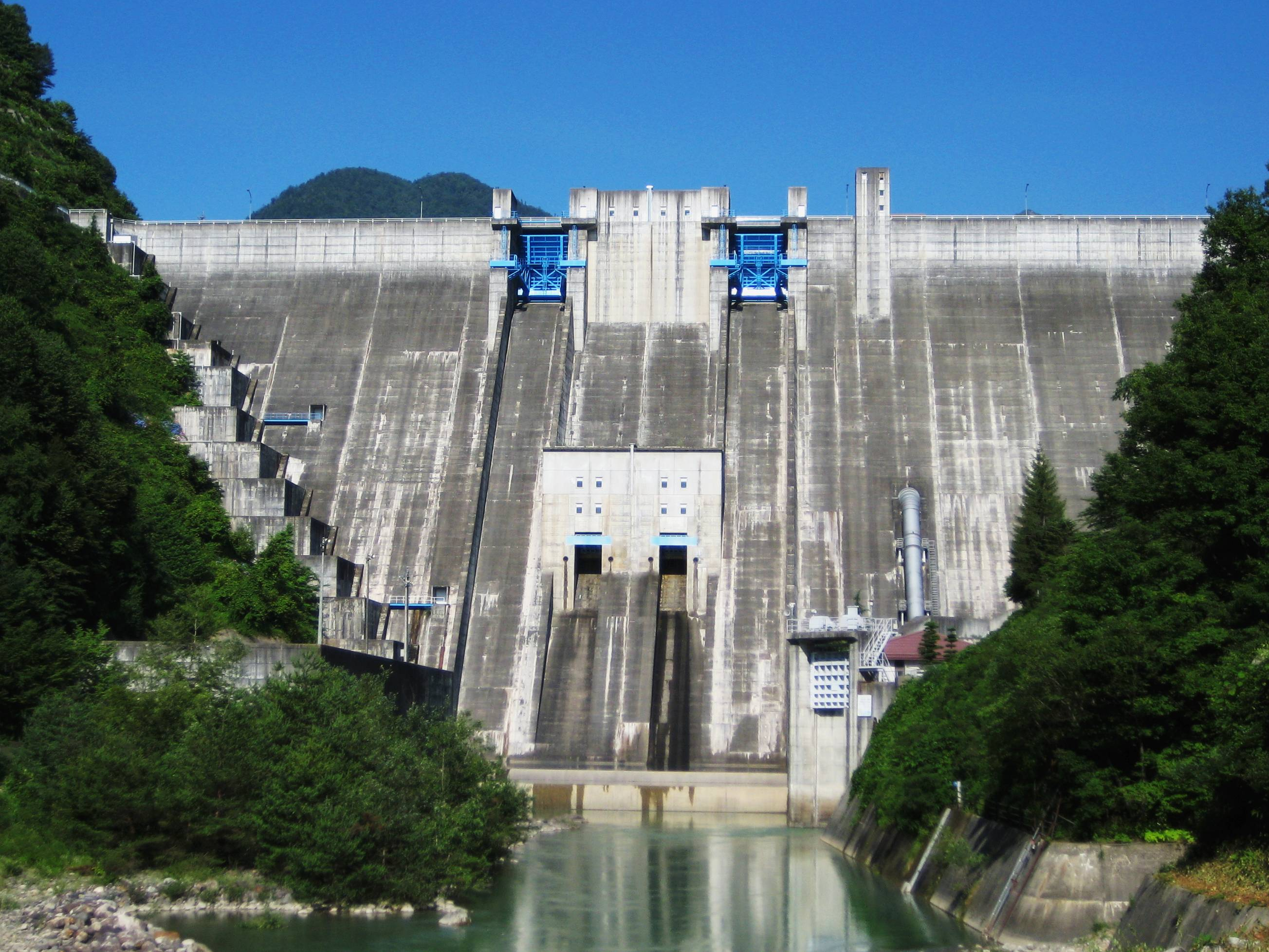 Ōmachi Dam.